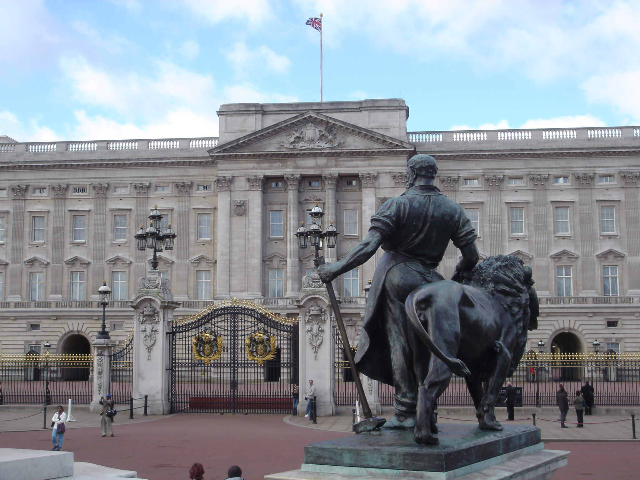 Buckingham full view